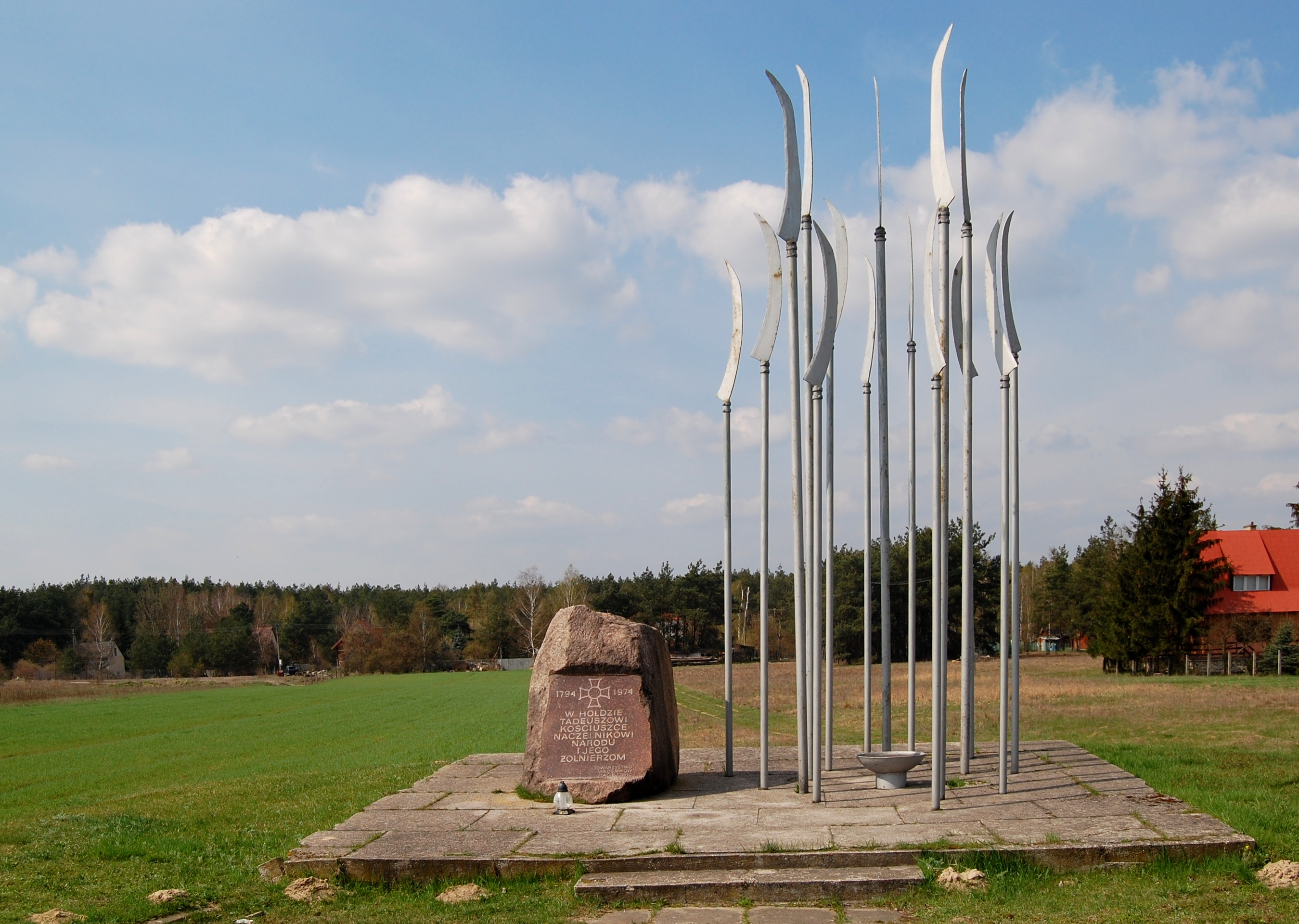 Monument commemorating the battle of Maciejowice, Maciejowice, Masovian Voivodeship, Poland. Monumet by Maciej Krysiak.